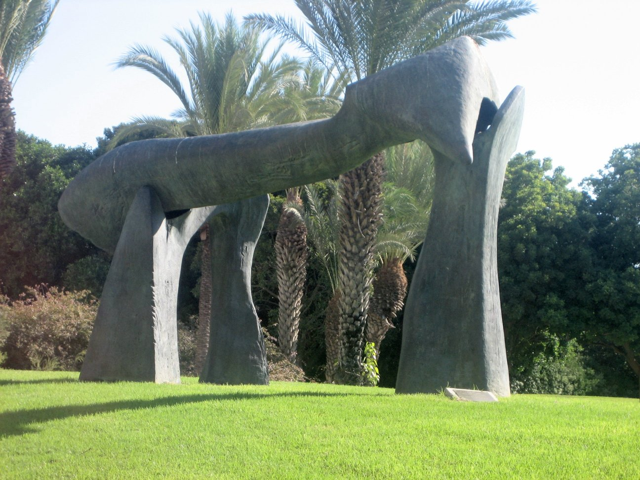 'Dolmenic Arch I', by Eli Ilan, 1981, Tel Aviv University, Tel Aviv, Israel